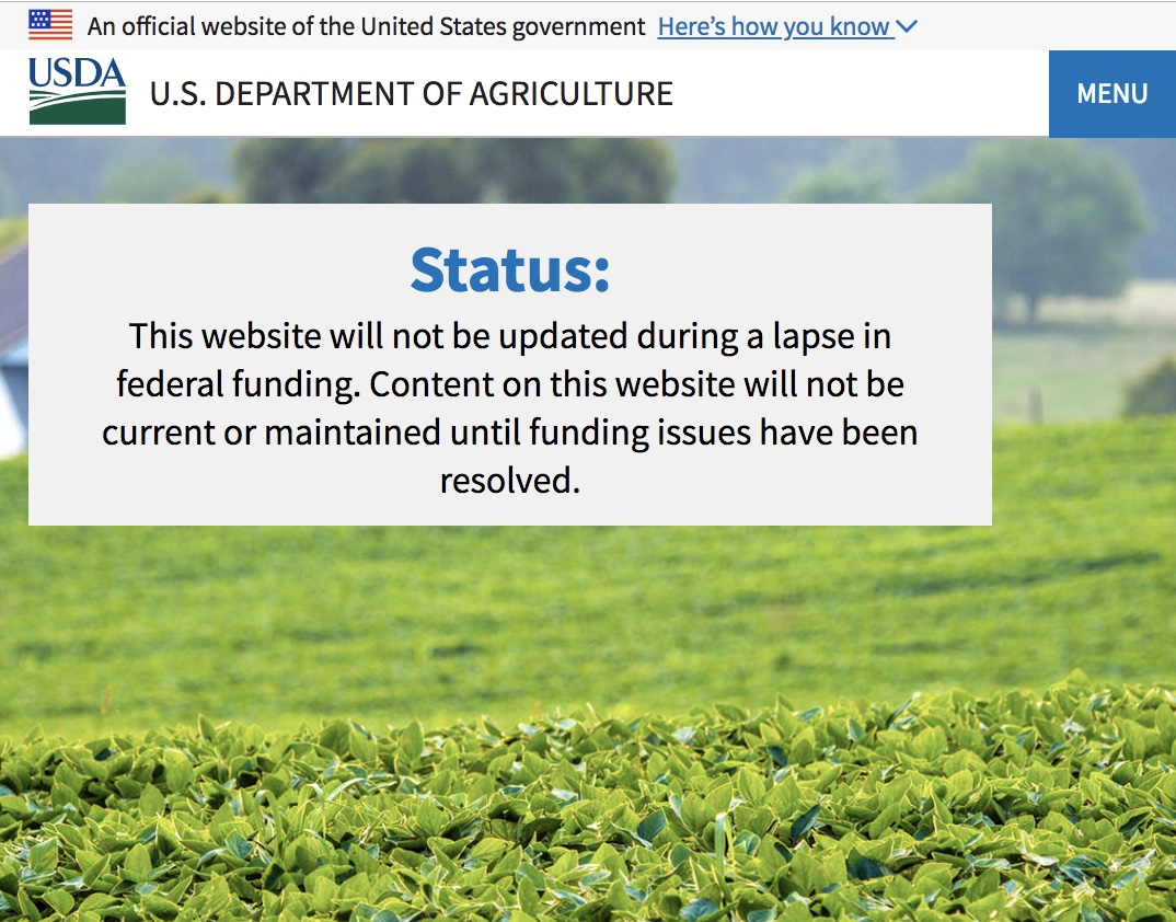 USDA under shutdown Jan 13 2019